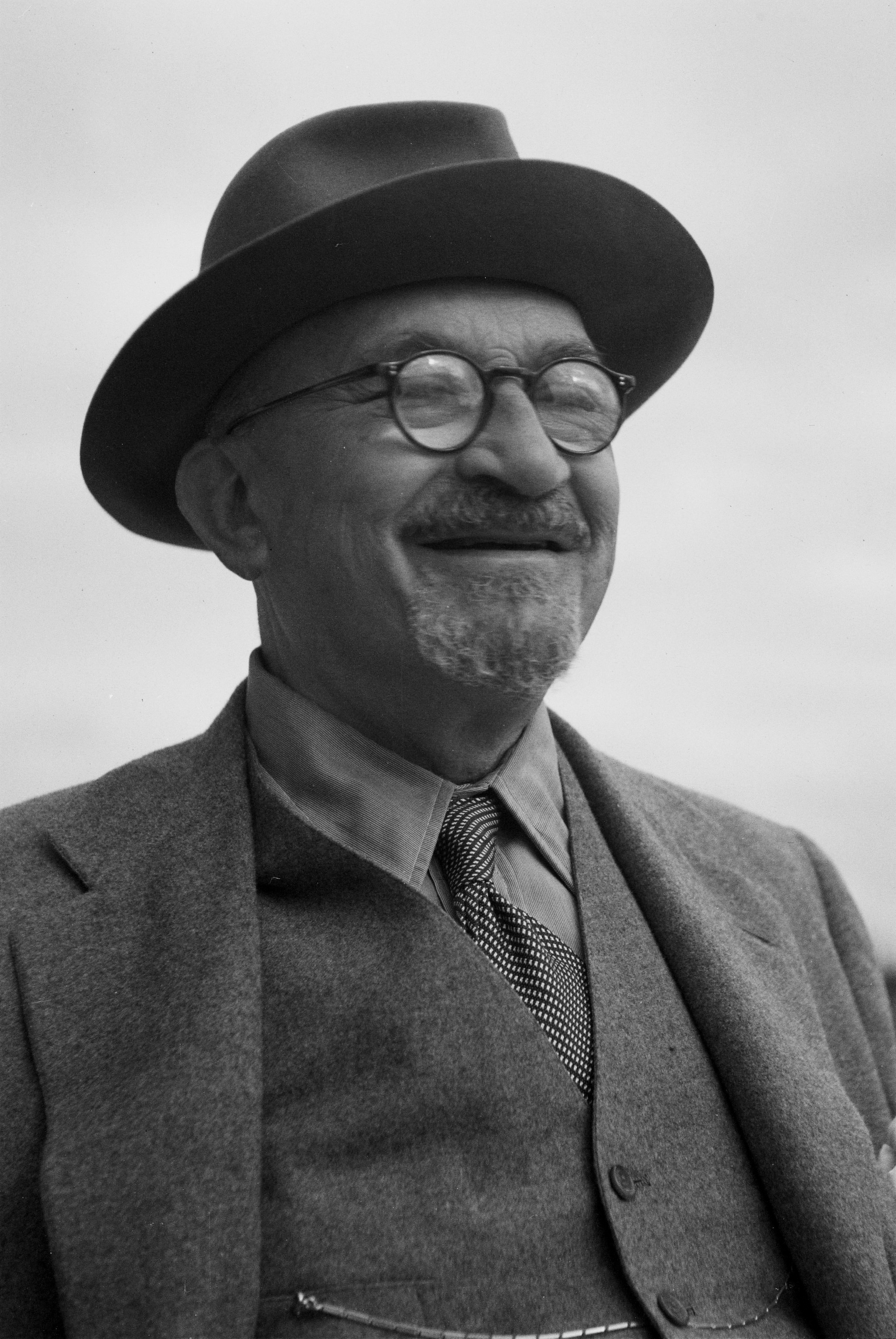 President Chaim Weizmann, who was a science professor before becoming Israel's first president.